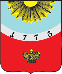 Coat of Arms from Tikhvin